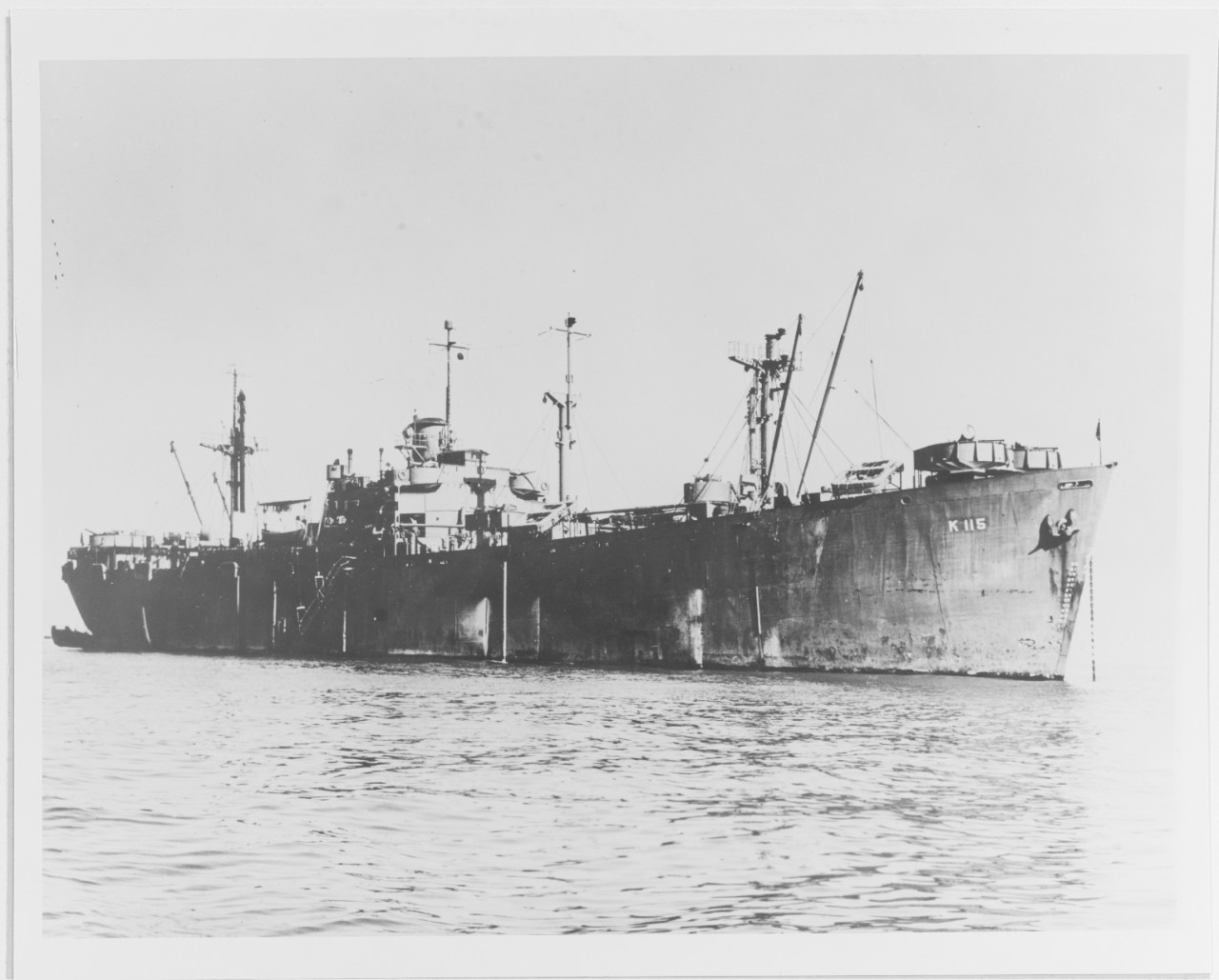 USS Crux (AK-115), Crater-class cargo ship